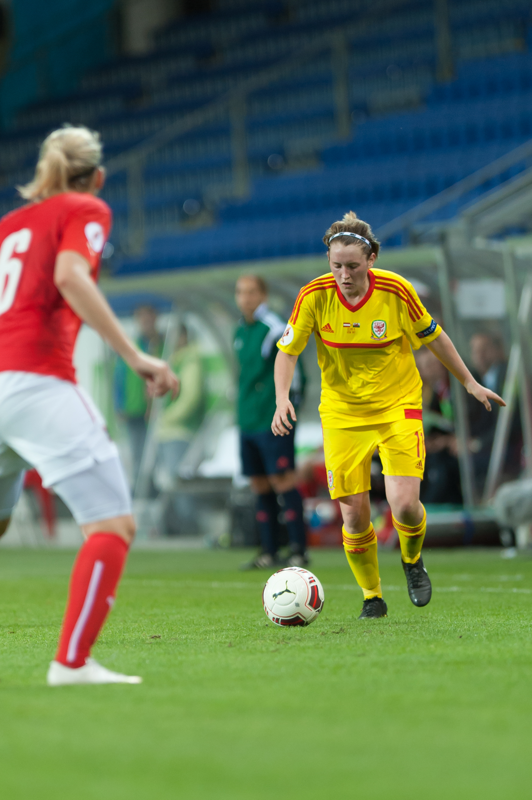 Women's Euro Qualification Austria vs. Wales, 2015-09-22, St. Pölten, Lower Austria